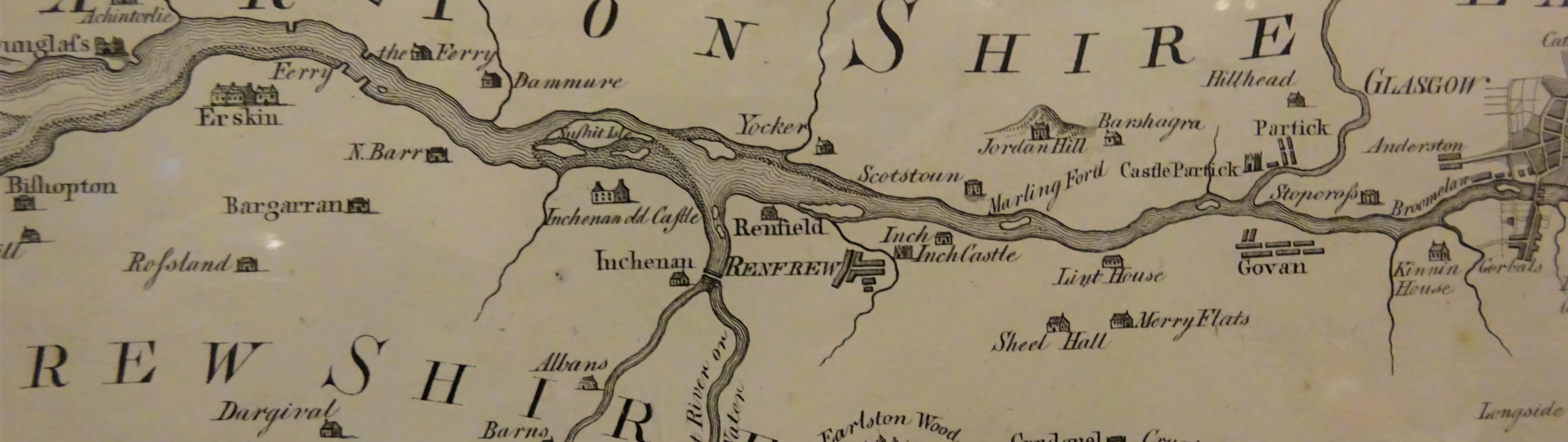 James Watt's survey of the River Clyde of 1736. The islands of the Clyde are illustrated.